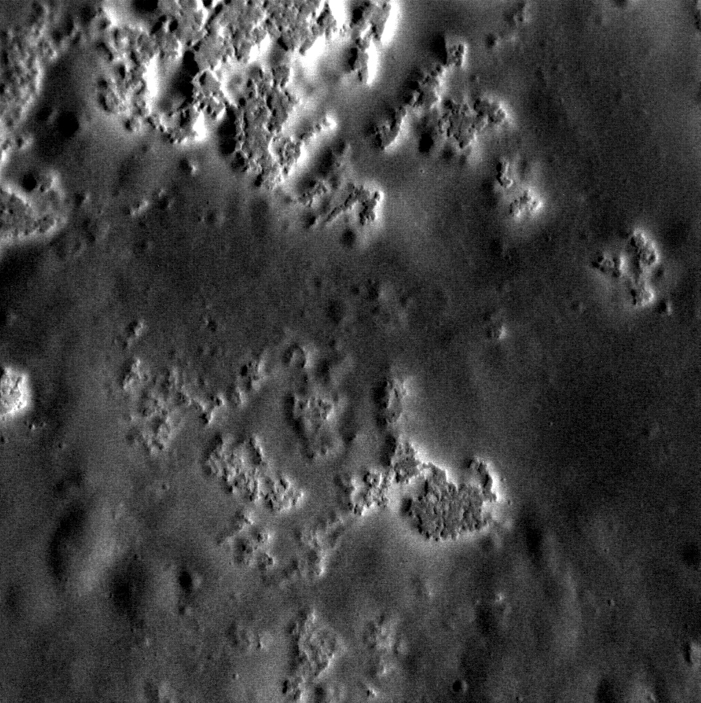 From the webpage: " Release Date: March 12, 2014 Date acquired: March 07, 2014 Image Mission Elapsed Time (MET): 36539529 Image ID: 5891638 Instrument: Narrow Angle Camera (NAC) of the Mercury Dual Imaging System (MDIS) Center Latitude: 51.90° Center Longitude: 267.53° E Resolution: 7.9 meters/pixel Scale: This image is about 8 kilometers (5 miles) across Incidence Angle: 63.2° Emission Angle: 14.9° Phase Angle: 78.0° Of Interest: This image, just captured last week, shows Mercury's hollows in the highest resolution yet achieved! These hollows are located on the wall of Sholem Aleichem, within a region of low-reflectance material. This image was acquired as part of the MDIS low-altitude imaging campaign. During MESSENGER's second extended mission, the spacecraft makes a progressively closer approach to Mercury's surface than at any previous point in the mission, enabling the acquisition of high-spatial-resolution data. For spacecraft altitudes below 350 kilometers, NAC images are acquired with pixel scales ranging from 20 meters to as little as 2 meters. The MESSENGER spacecraft is the first ever to orbit the planet Mercury, and the spacecraft's seven scientific instruments and radio science investigation are unraveling the history and evolution of the Solar System's innermost planet. During the first two years of orbital operations, MESSENGER acquired over 150,000 images and extensive other data sets. MESSENGER is capable of continuing orbital operations until early 2015"